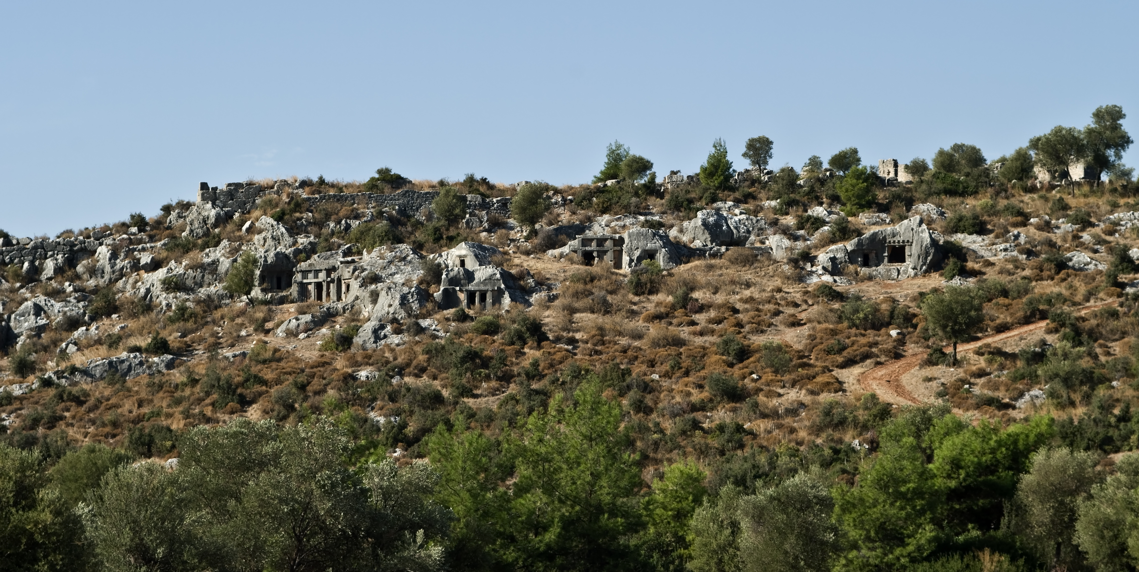 Lycian tombs in Xanthos, Turkey.